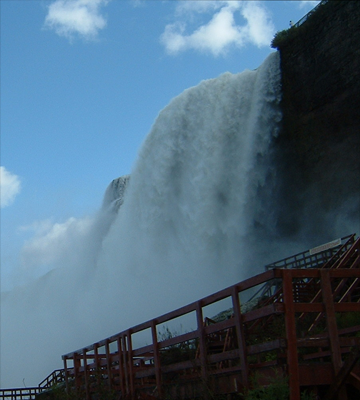 The Bridal Veil Falls viewed from below while on the Cave of the Winds walk. To the right is the "Thunder Deck" where brave souls have the option to stand within a few feet, or so, of the falls and get soaked. Photo taken by me (liffer) in October 2006.